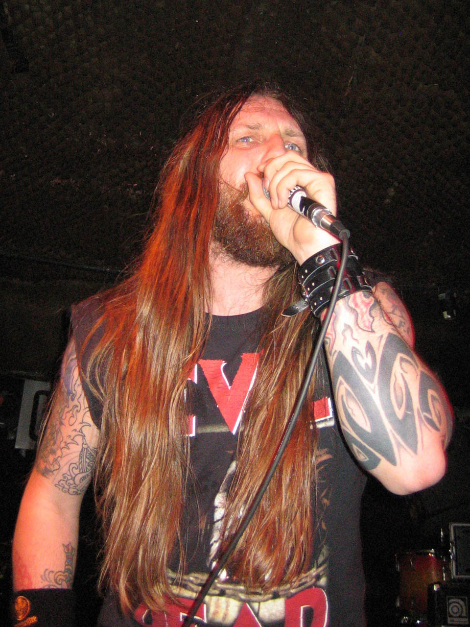 Ben Ward, singer of Orange Goblin (2006, Continental)